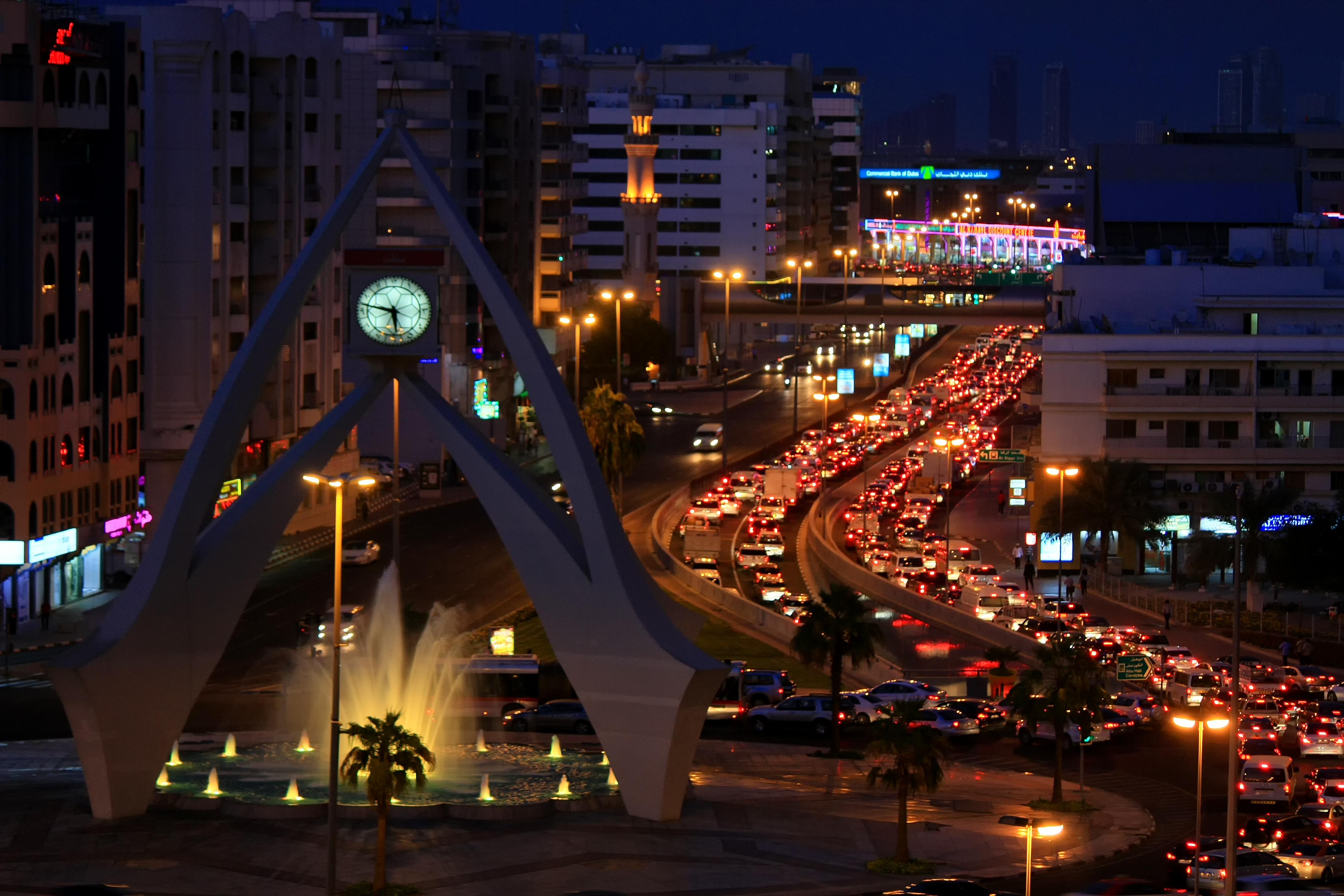 Deira Clocktower (Arabic: دوار الساعة ديرة), originally referred to as the Dubai Clocktower, is a roundabout in Dubai, United Arab Emirates (UAE).